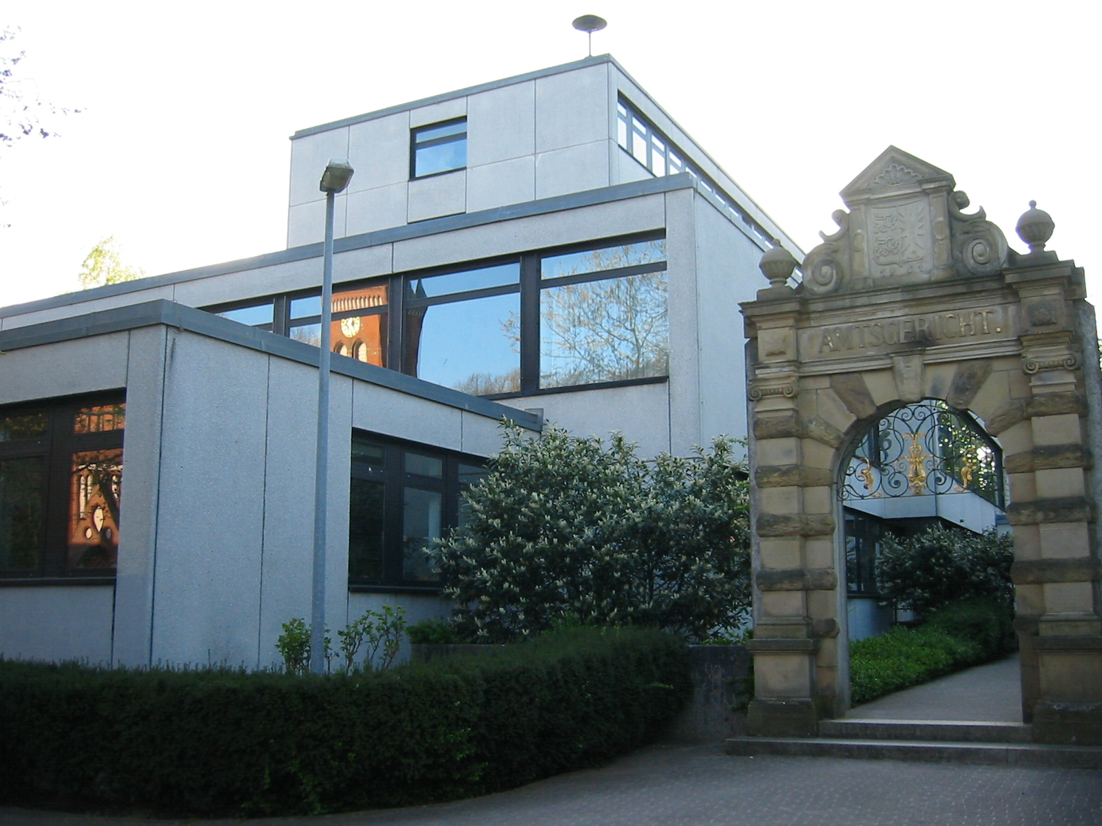 District court Pinneberg in Germany